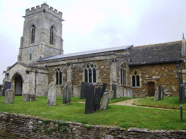 St Peter's parish church, Belton-in-Rutland, seen from the southeast